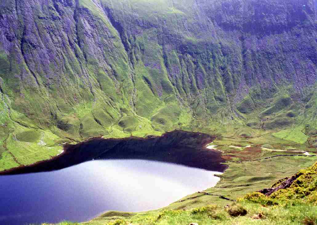 Personal photograph taken by Mick Knapton